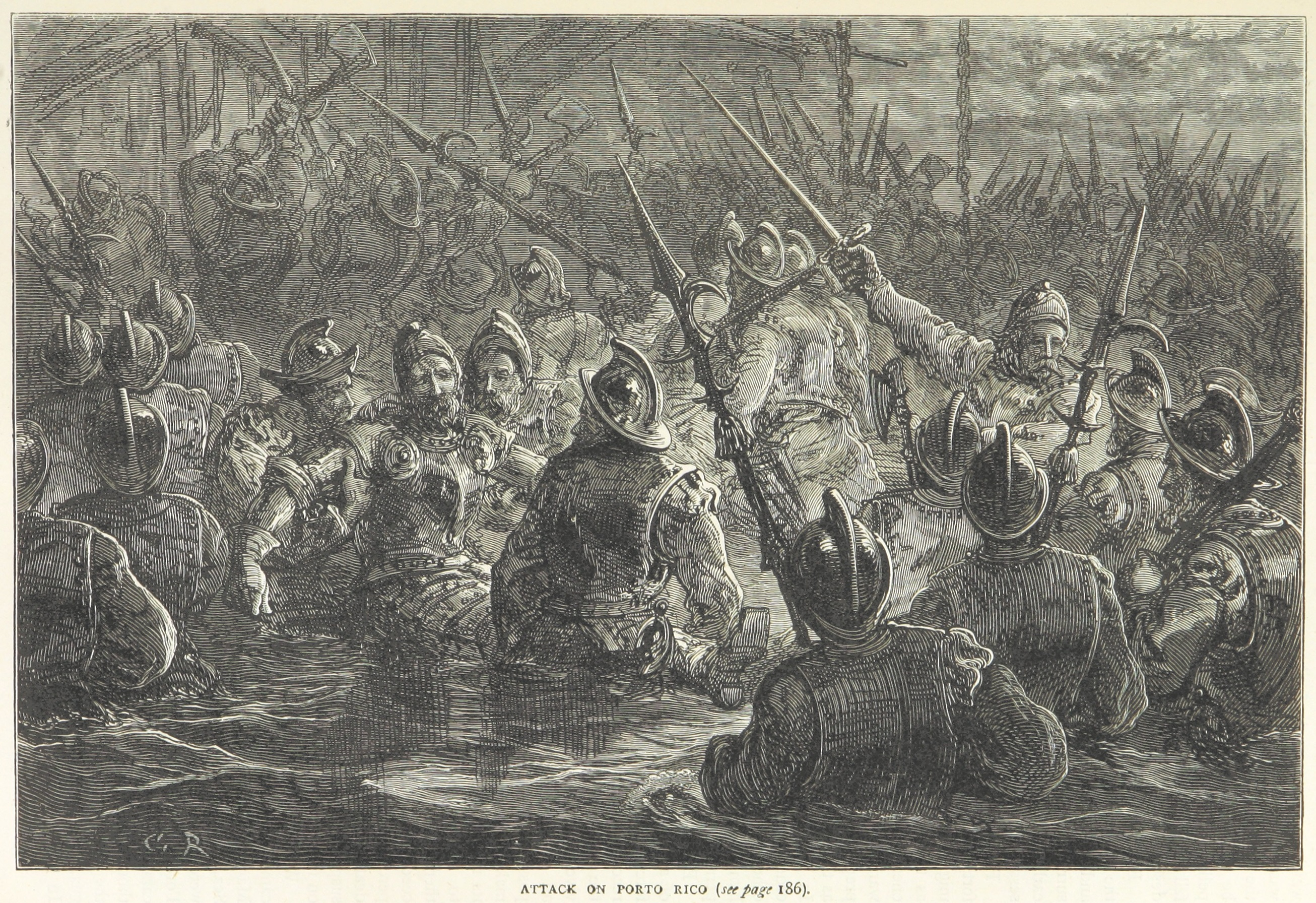 The English assault during the 1598 Battle of San Juan.